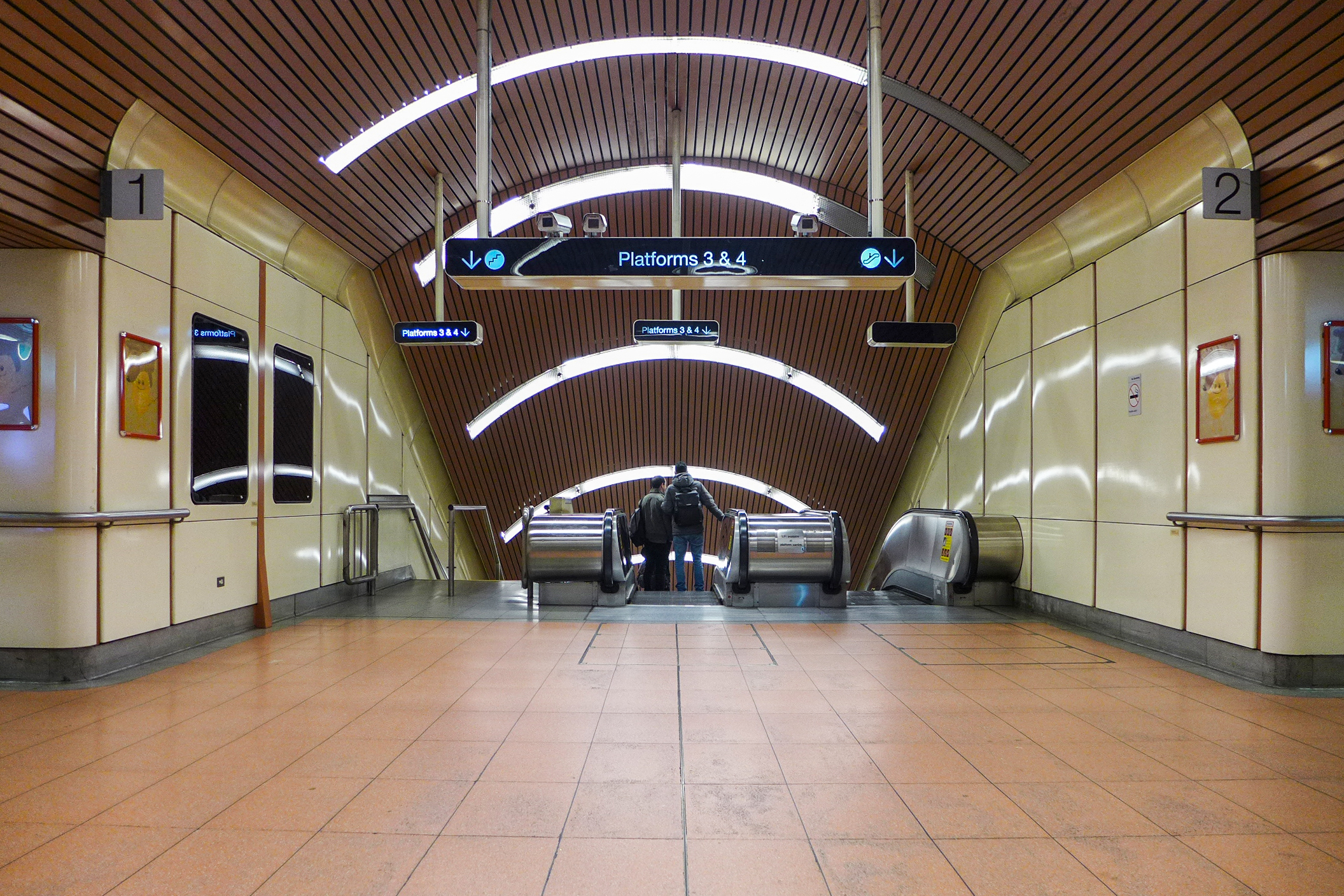 Flagstaff Station Escalator